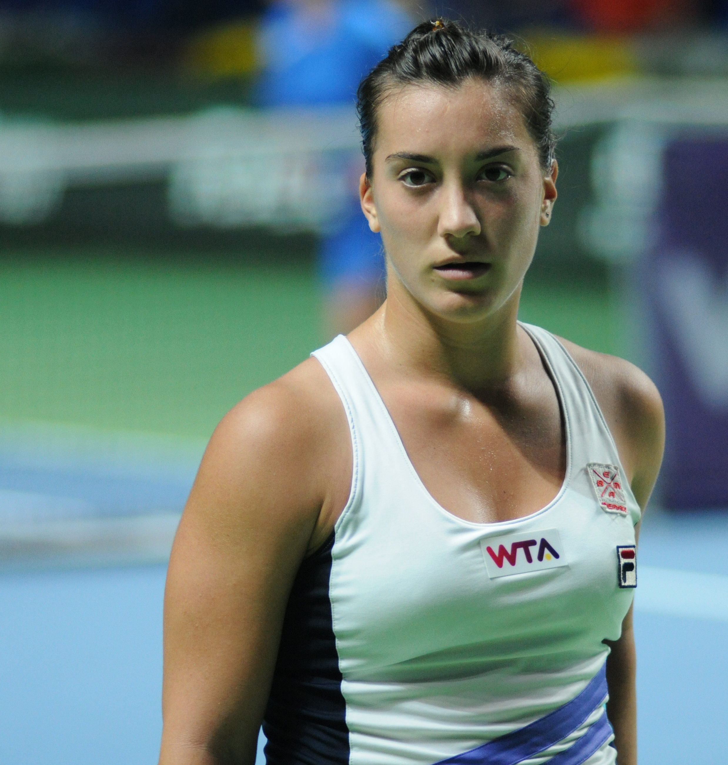 Danka Kovinić at the 2014 Kremlin Cup